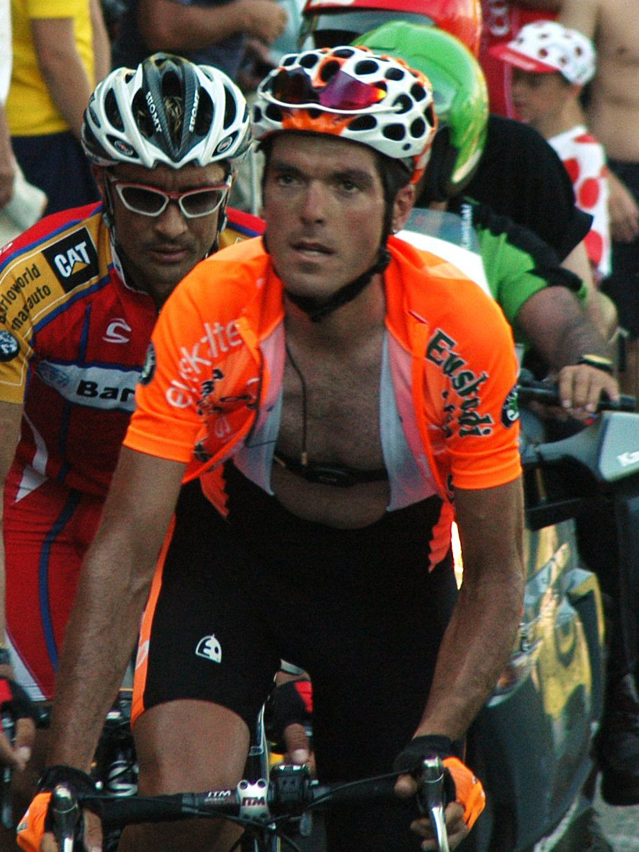 Gorka Verdugo at stage 7 of the Tour de France 2007 on the Col de la Colombière.